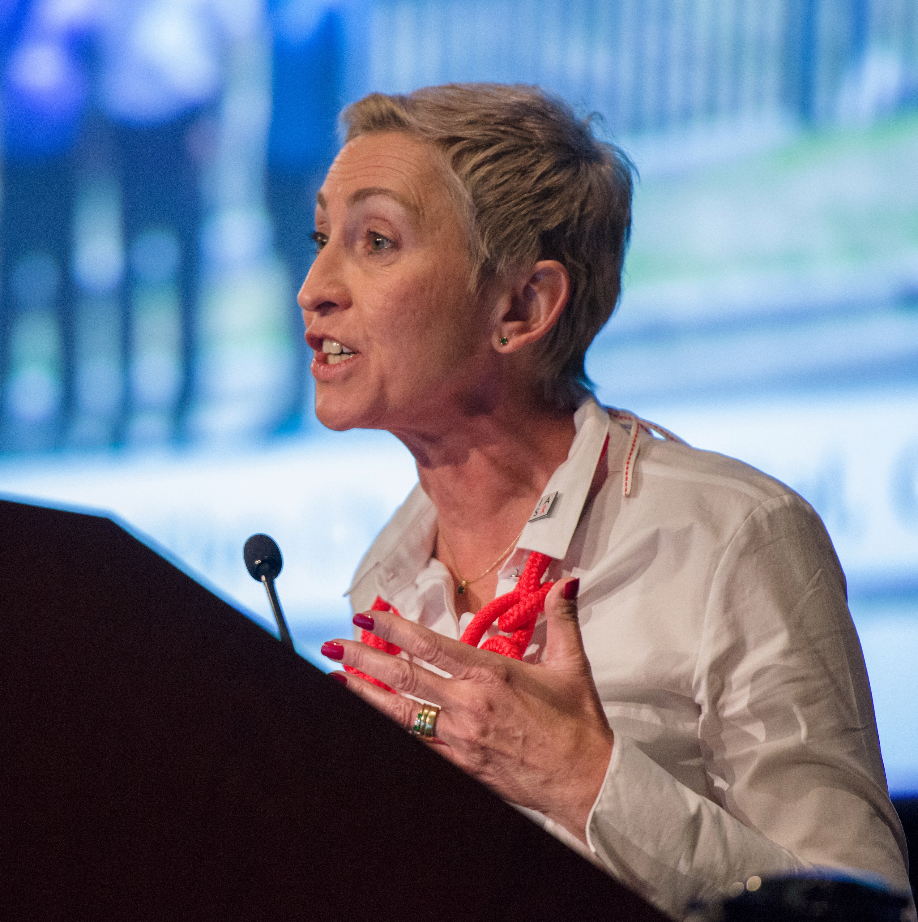 Fogarty held its 50th anniversary symposium, "What are the new frontiers in global health research?" on May 1, 2018, at NIH in Bethesda, Maryland. Dr. Linda-Gail Bekker, professor at the University of Cape Town, shared her personal story of how Fogarty support allowed her to earn her Ph.D. in the U.S., opening “a whole world of discovery.” Symposium agenda and recorded webcast: Credit: Andrew Propp for Fogarty/NIH